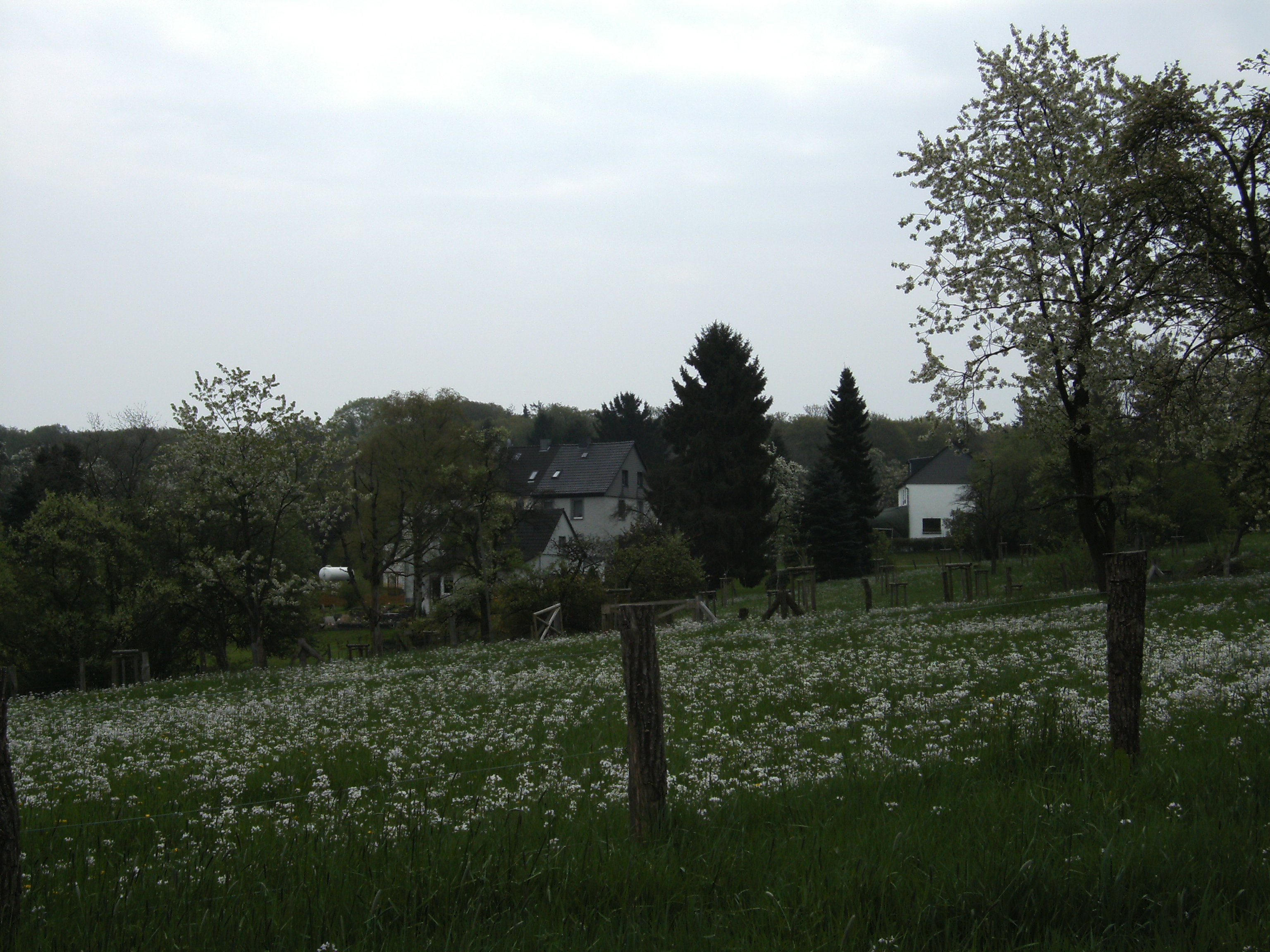 View of Neu-Amerika in Schöller, Wuppertal